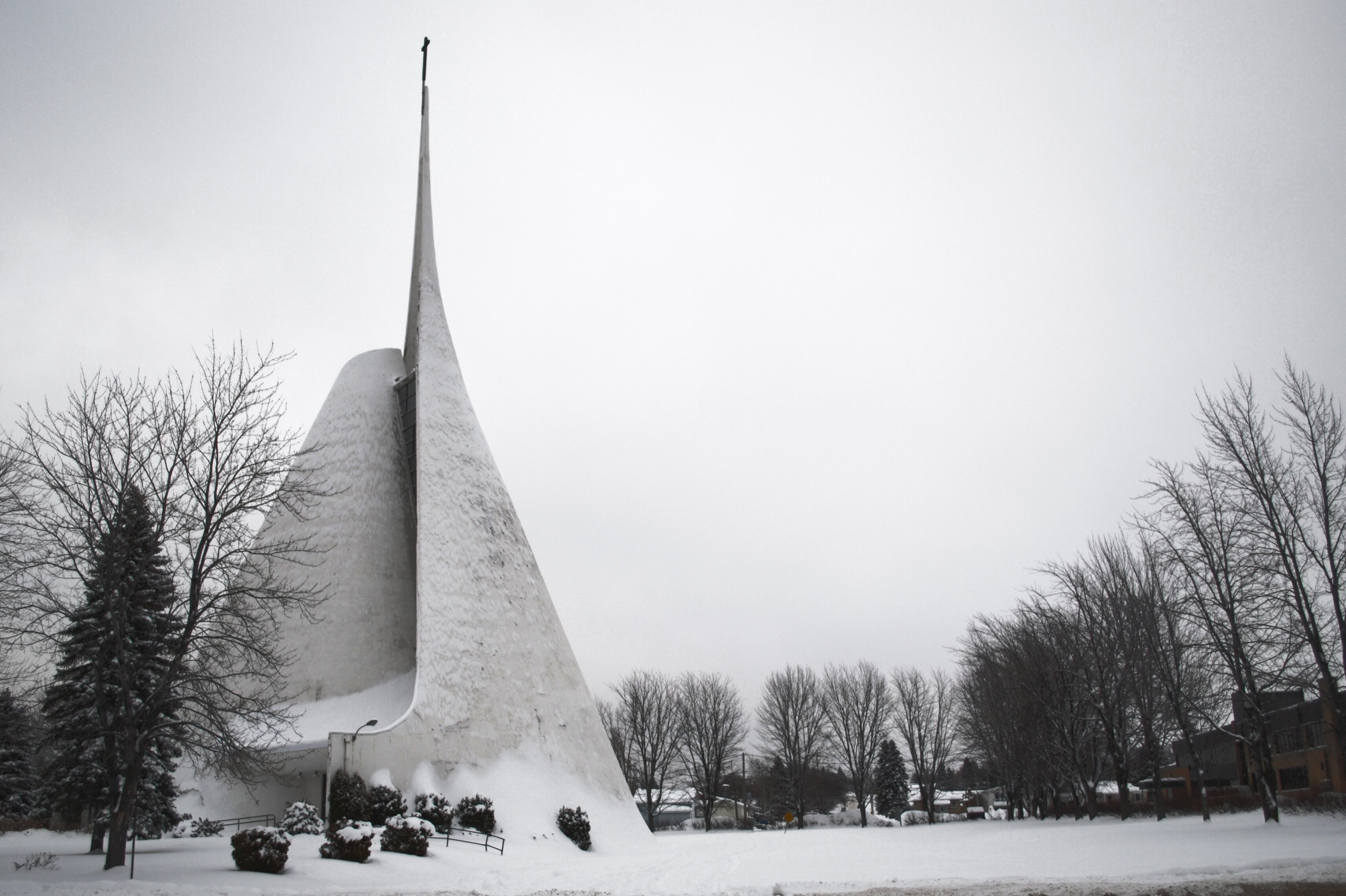 Notre-Dame-de-Fatima Church in Jonquière (a borough of the city of Saguenay), Quebec, Canada. Designed by Léonce Desganés et Paul-Marie Côté, the church is evocative of an aboriginal tipi.